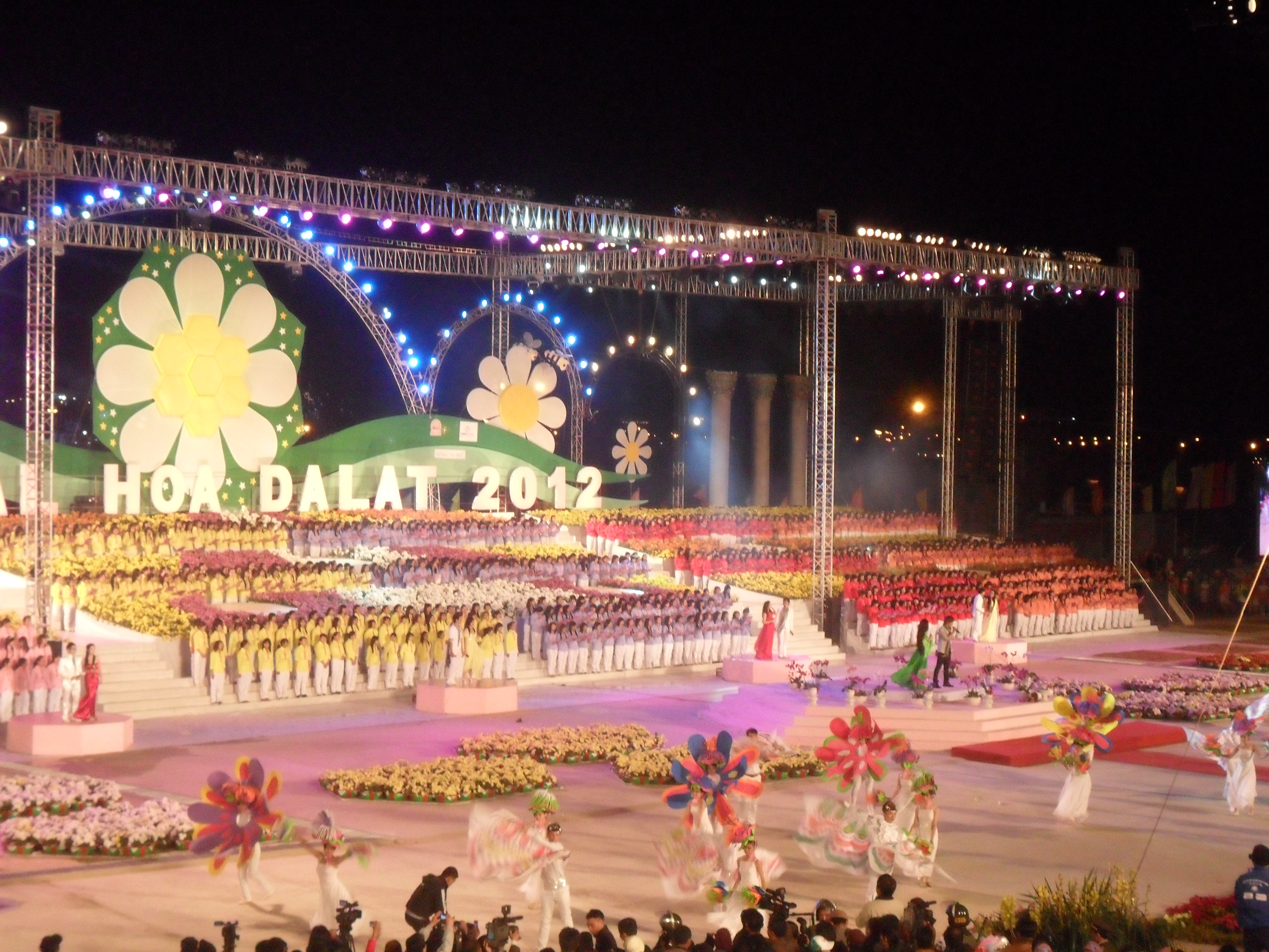 Opening night of Da Lat Flower Festival 2012, Vietnam